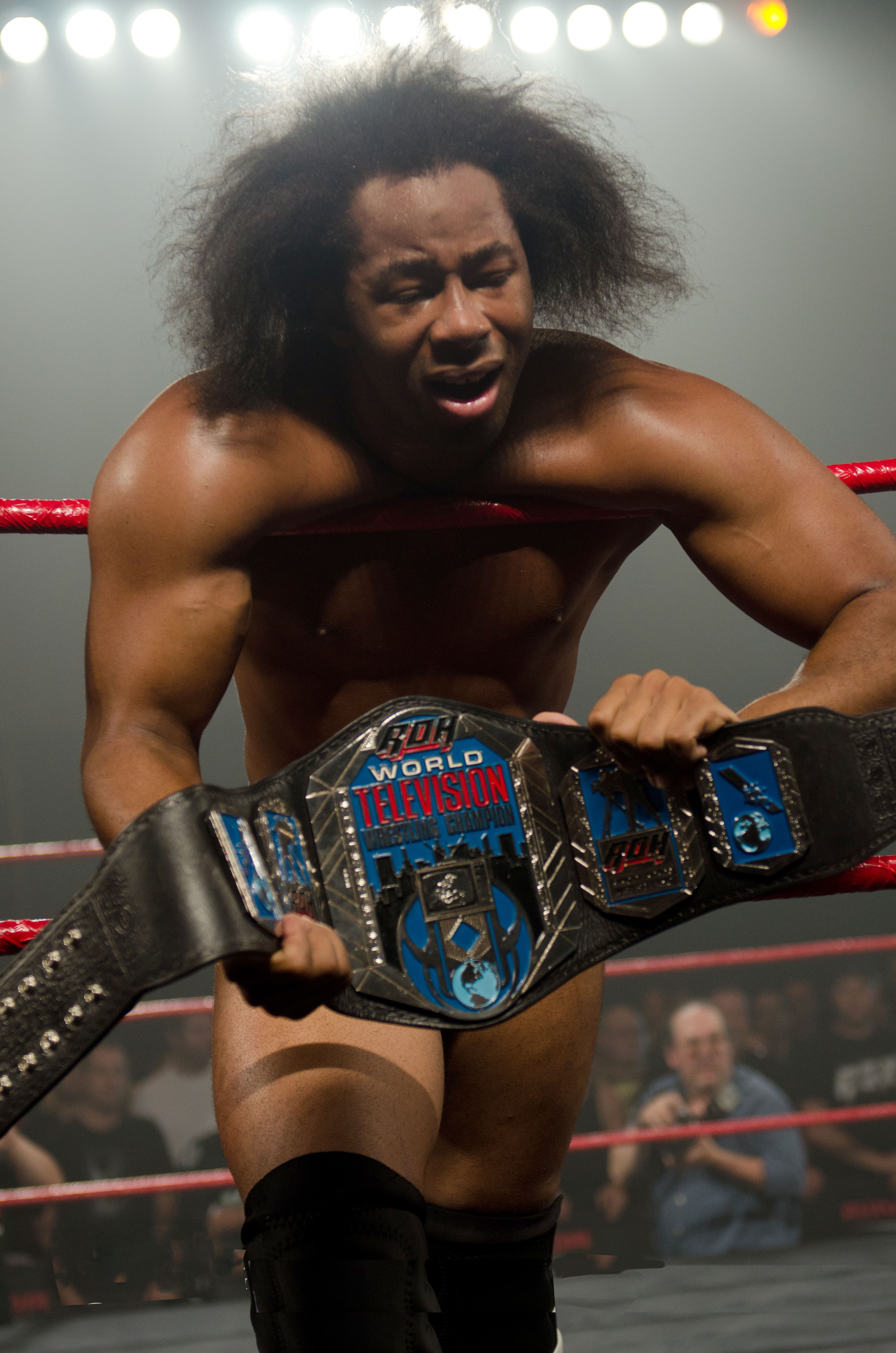 Jay Lethal as the ROH World Television Champion on August 13, 2011.